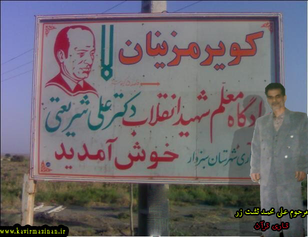 کویر مزینان